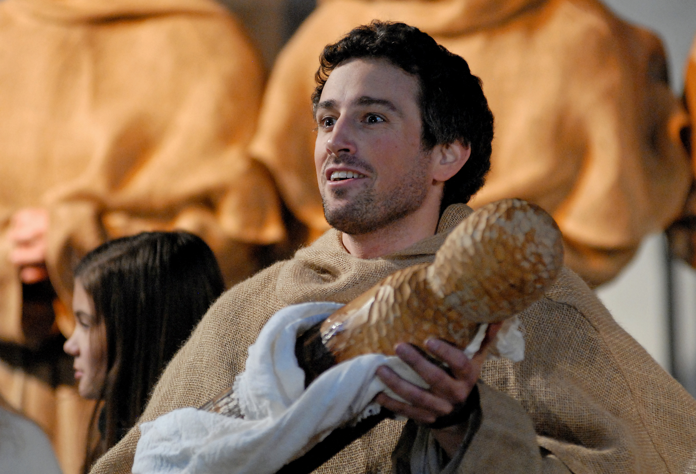 Petr Sýkora as Saint Francis in the Christmas play Jesličky svatého Františka (The Nativity Scene of Saint Francis)